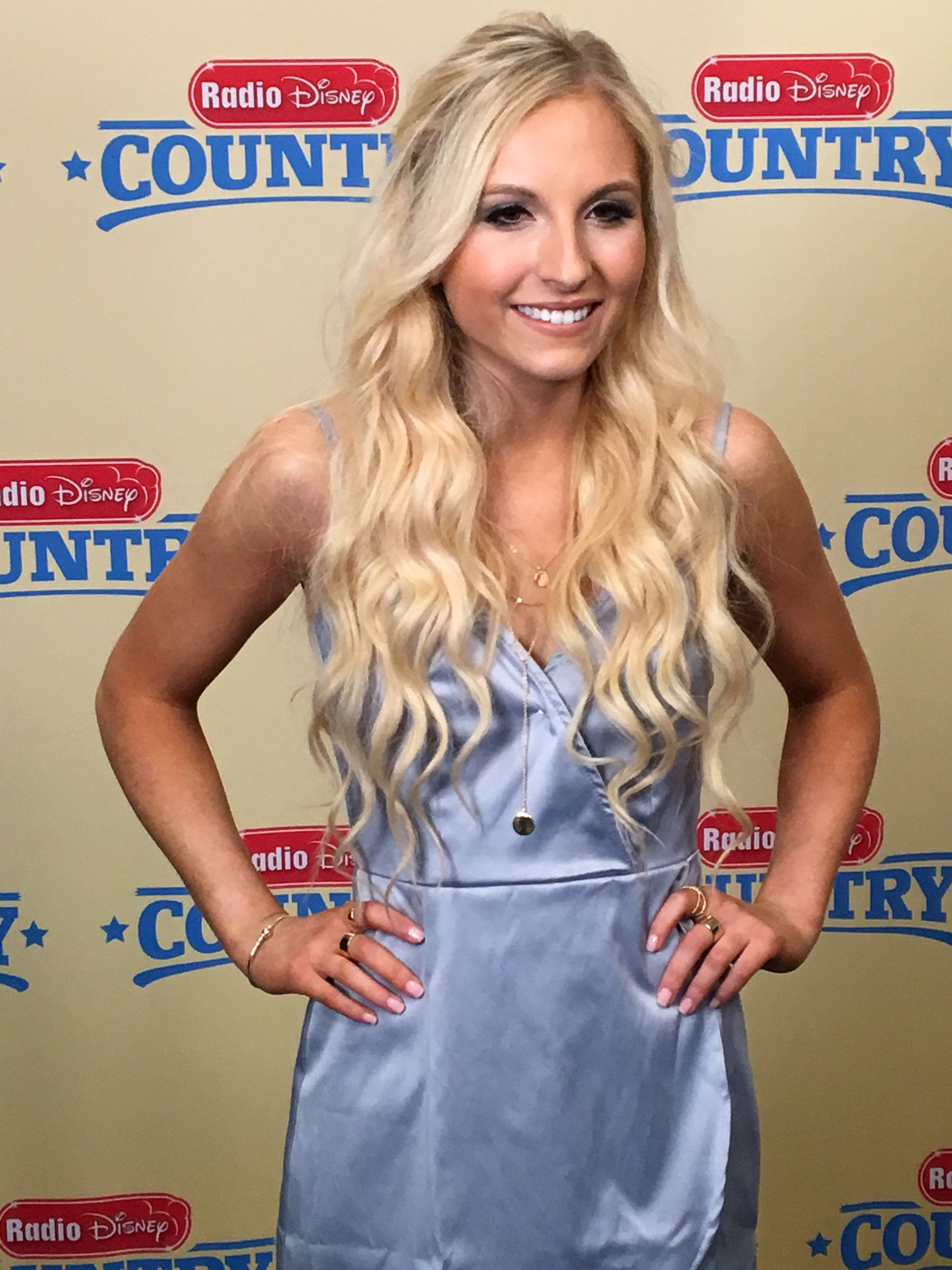 Radio Disney Country Artist Jessie Chris